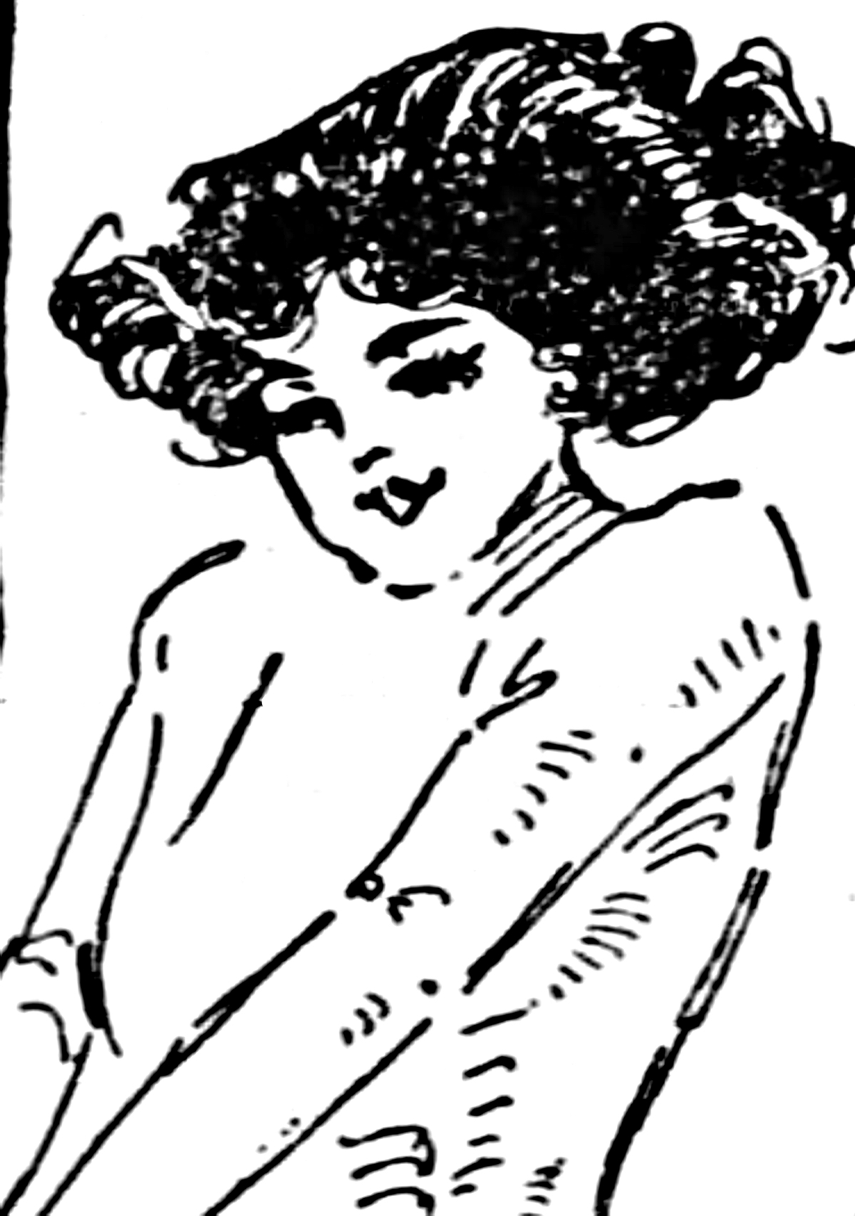 American writer Fannie Hurst when Hurst was in college at Washington University, St. Louis